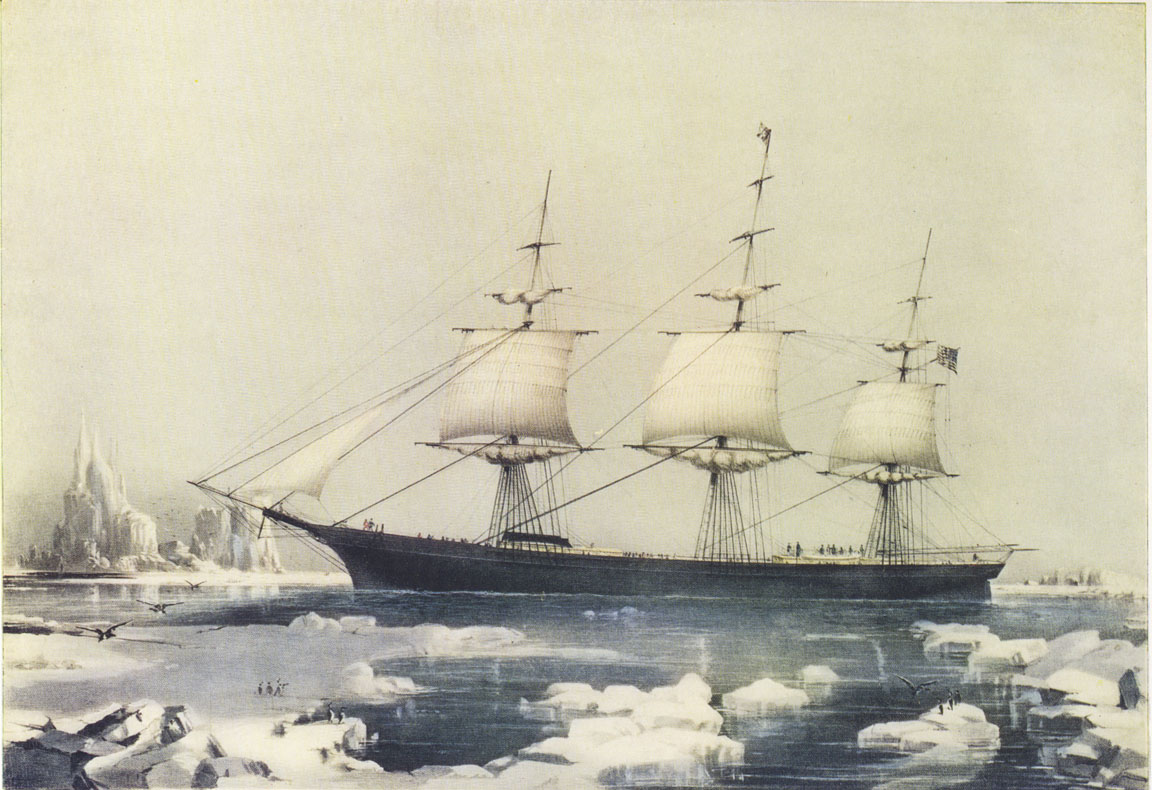 Red Jacket in the ice off Cape Horn